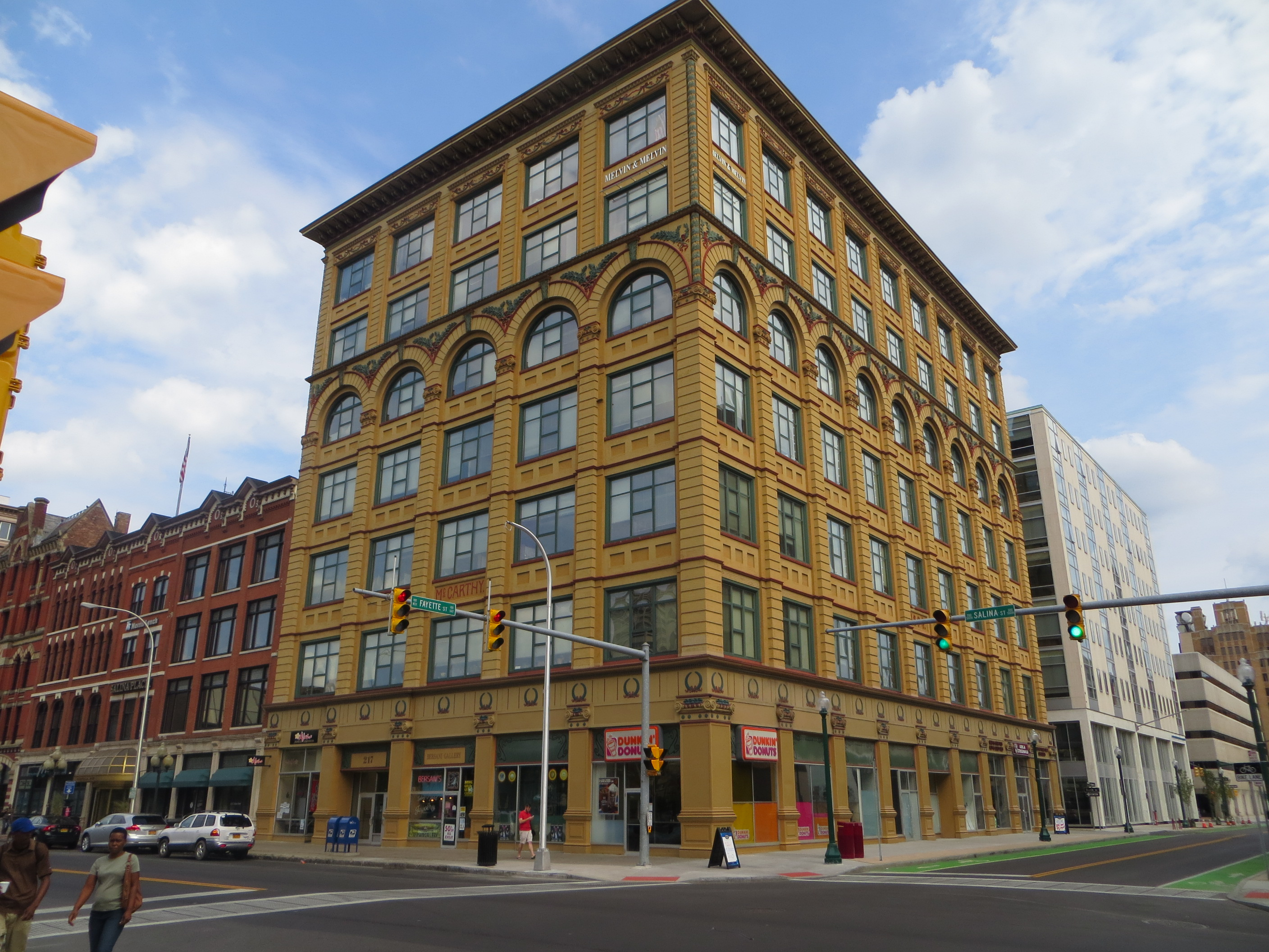 Building at South Salina St and East Fayette St in Syracuse, NY.